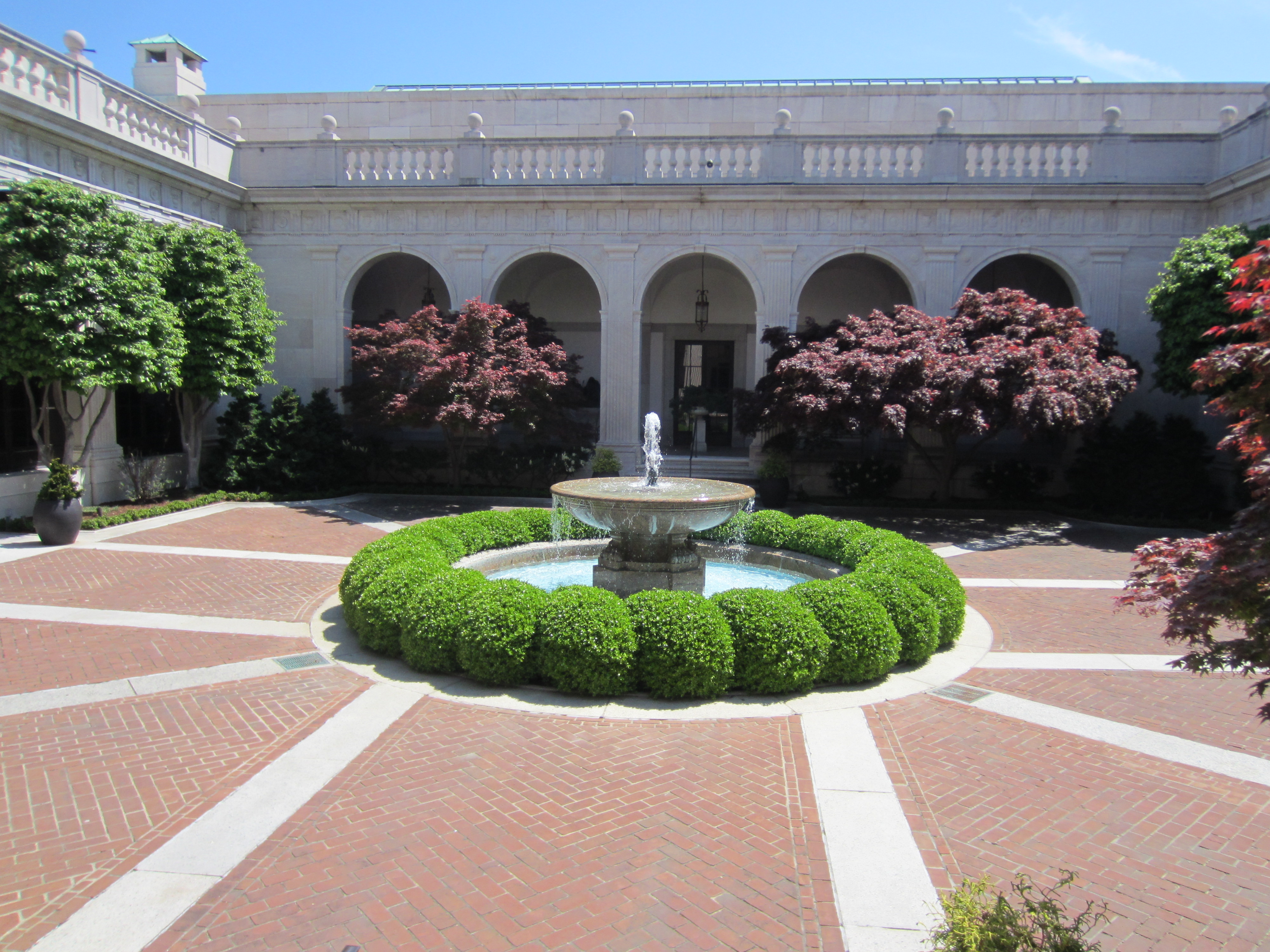 Freer Gallery of Art, Washington, D.C. (2013)